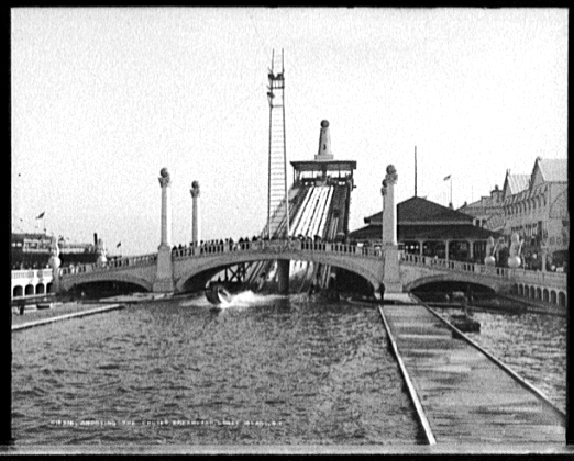 Fahrgeschäft „Shoot-the-Chutes“ im Dreamland-Vergnügungspark auf Coney Island, New York.